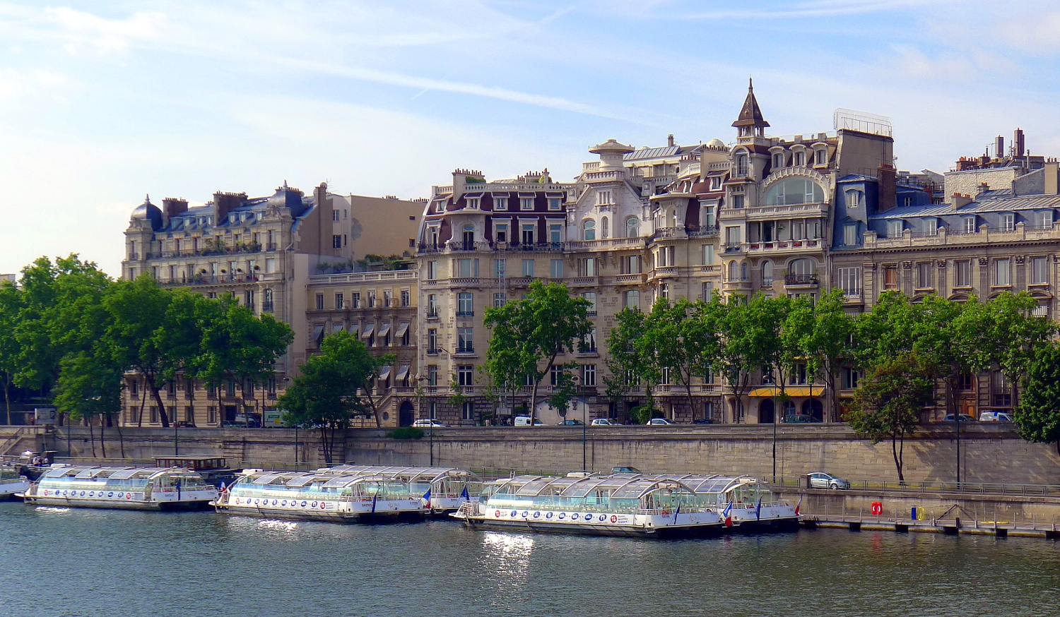 Port de Solférino ; quai Anatole France - Paris